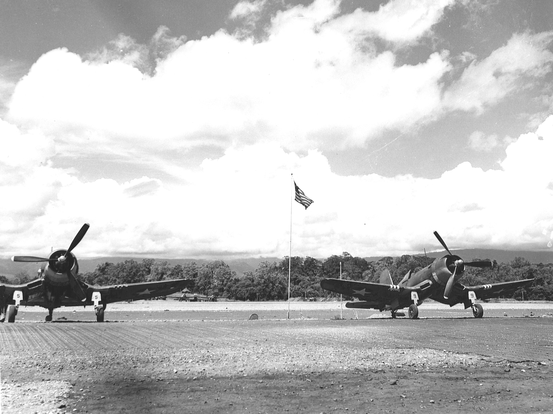 U.S. Marine Corps Vought F4U-1 Corsair aircraft of Marine Fighting Squadron 213 (VMF-213) Hell Hawks are standing by on Fighter Strip No. 1 of Henderson Field, Guadalcanal, with the American flag waving in the background. In the early days of the battle, the flag was raised at Henderson Field but had to be taken down when Japanese artillery units used it to sight in on. The No. "9" aircraft was that of the Commanding Officer of VMF-213, Greg J. Weissenberger. Note the Grumman F4F-4 Wildcats in the background.